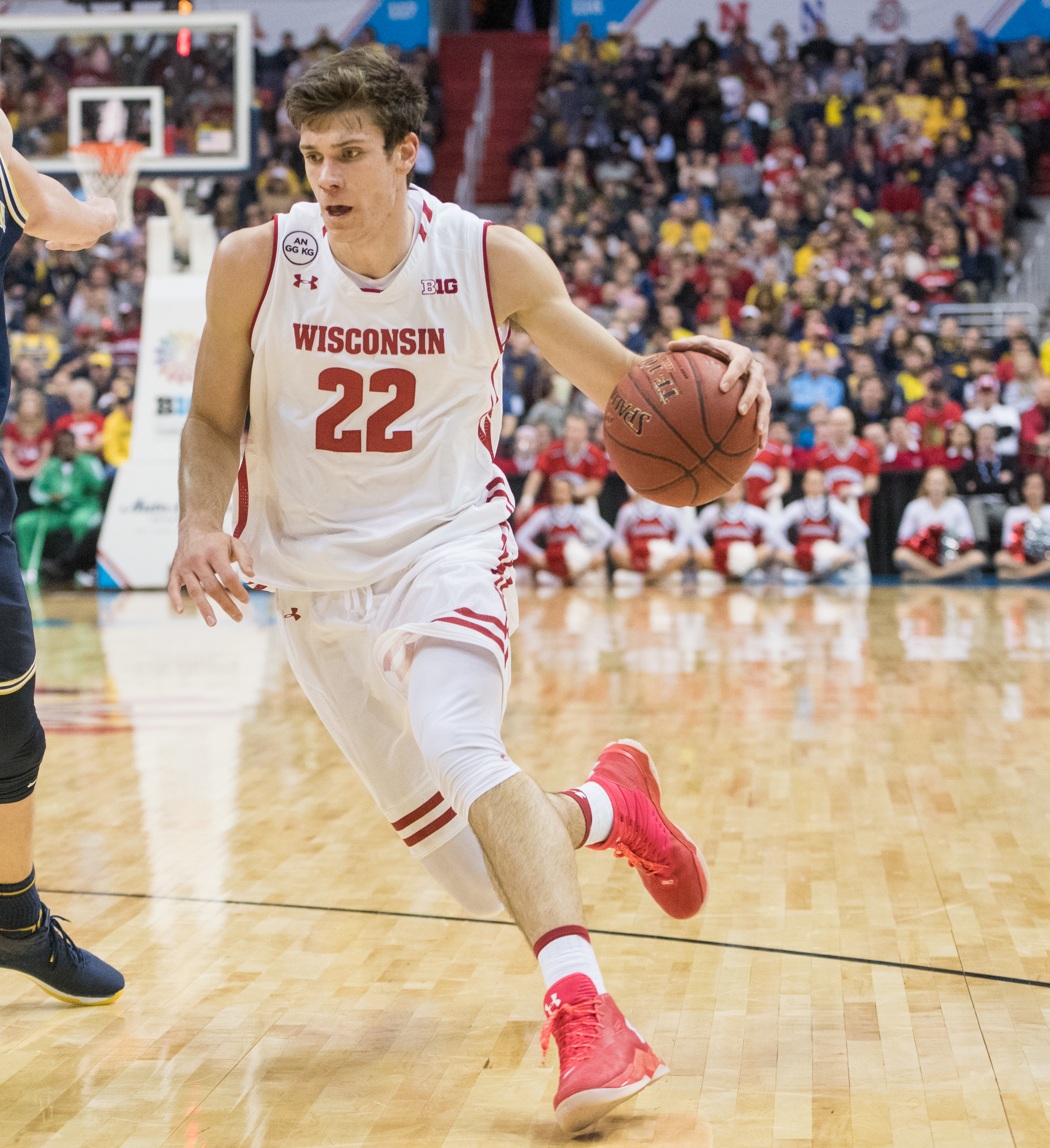 Ethan Happ